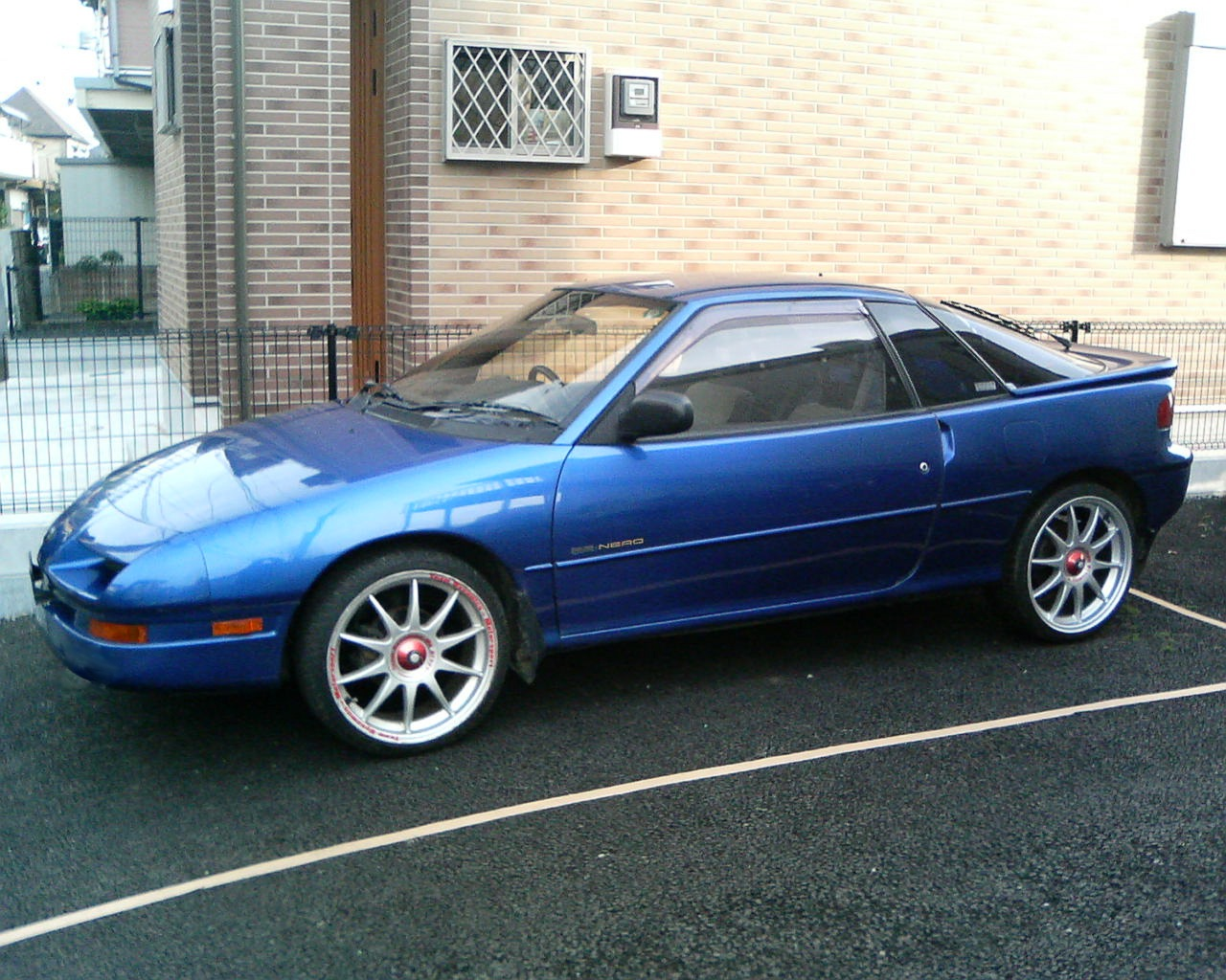 Isuzu PA-nero (Geo Storm related JAPAN Spec sold on "Yanase Dealer").